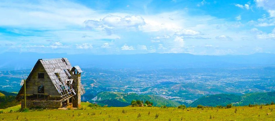 Vista desde el Mirador Juan Diéguez Olaverri desde donde se aprecian los volcanes: Tacaná, Tajumulco y Santa María